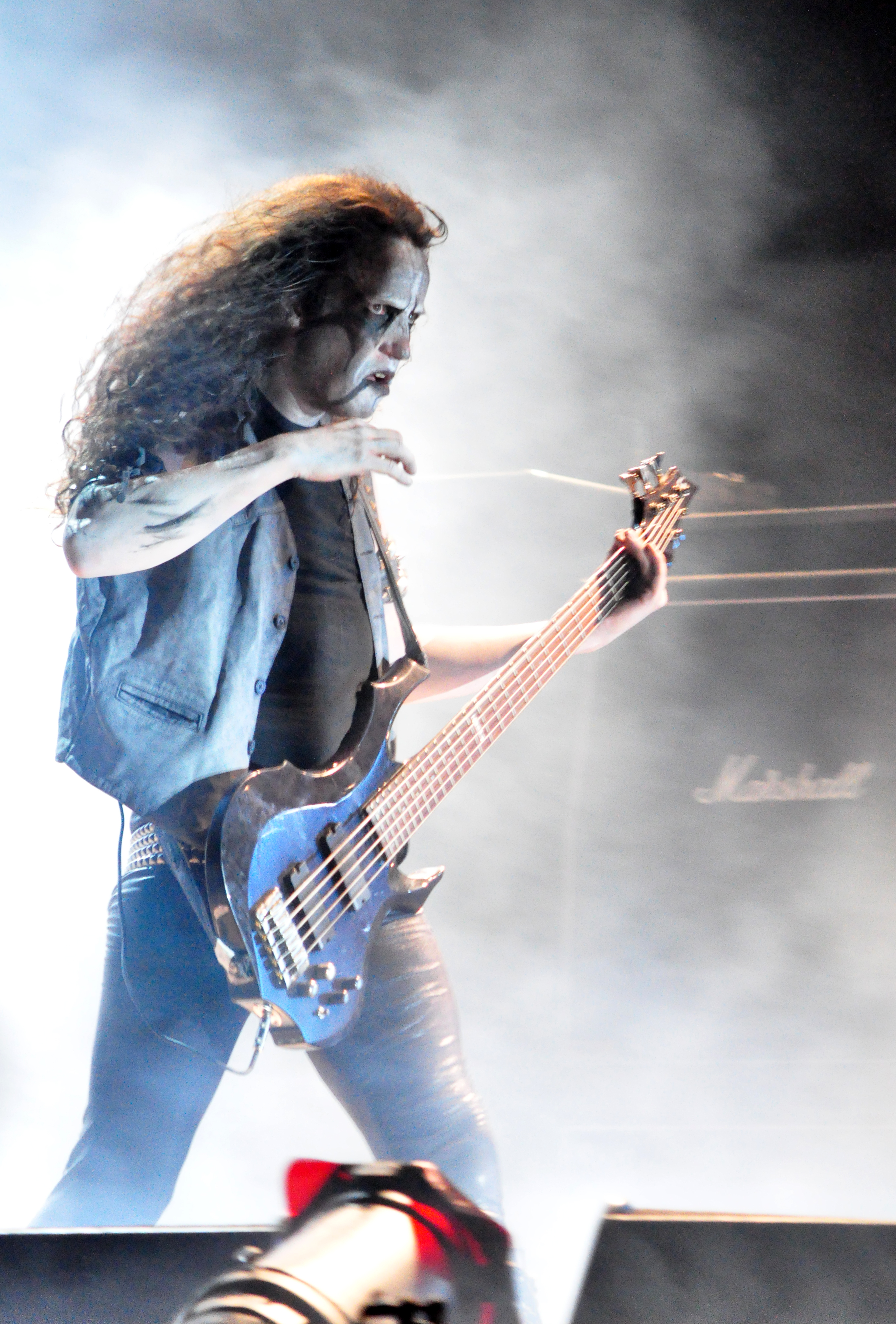 Immortal at Party.San Open Air 2012